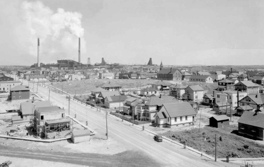 Général view of the town of Noranda, Quebec in 1937. In background, the Noranda mine.